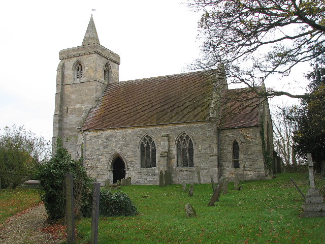 St Nicholas' parish church, Sapperton, Lincolnshire, seen from the south